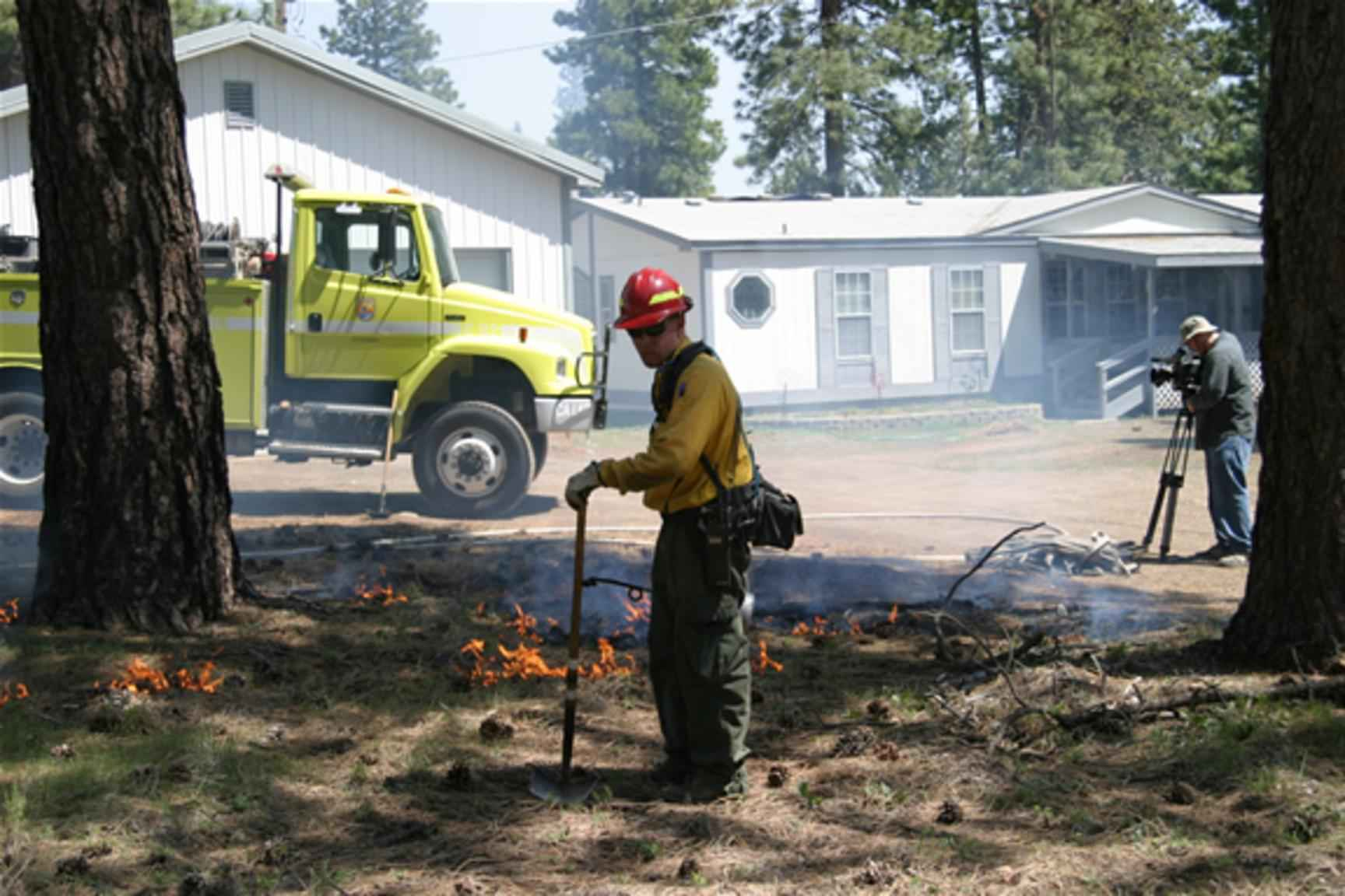 Image title: Fire education video filming Image from Public domain images website